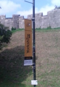 Banner in York of the Grand Depart of the 2014 Tour de France.